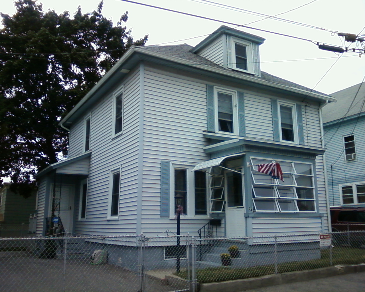 His third of several homes growing up in the West Centralville section of Lowell, Jack Kerouac later referred to 34 Beaulieu Street as "sad Beaulieu". The Kerouac family was living there in 1926 when Jack's big brother Gerard died of rheumatic fever at the age of nine. Jack was four at the time, and would later say that Gerard followed him in life as a guardian angel. This is the Gerard of Kerouac's novel Visions of Gerard.